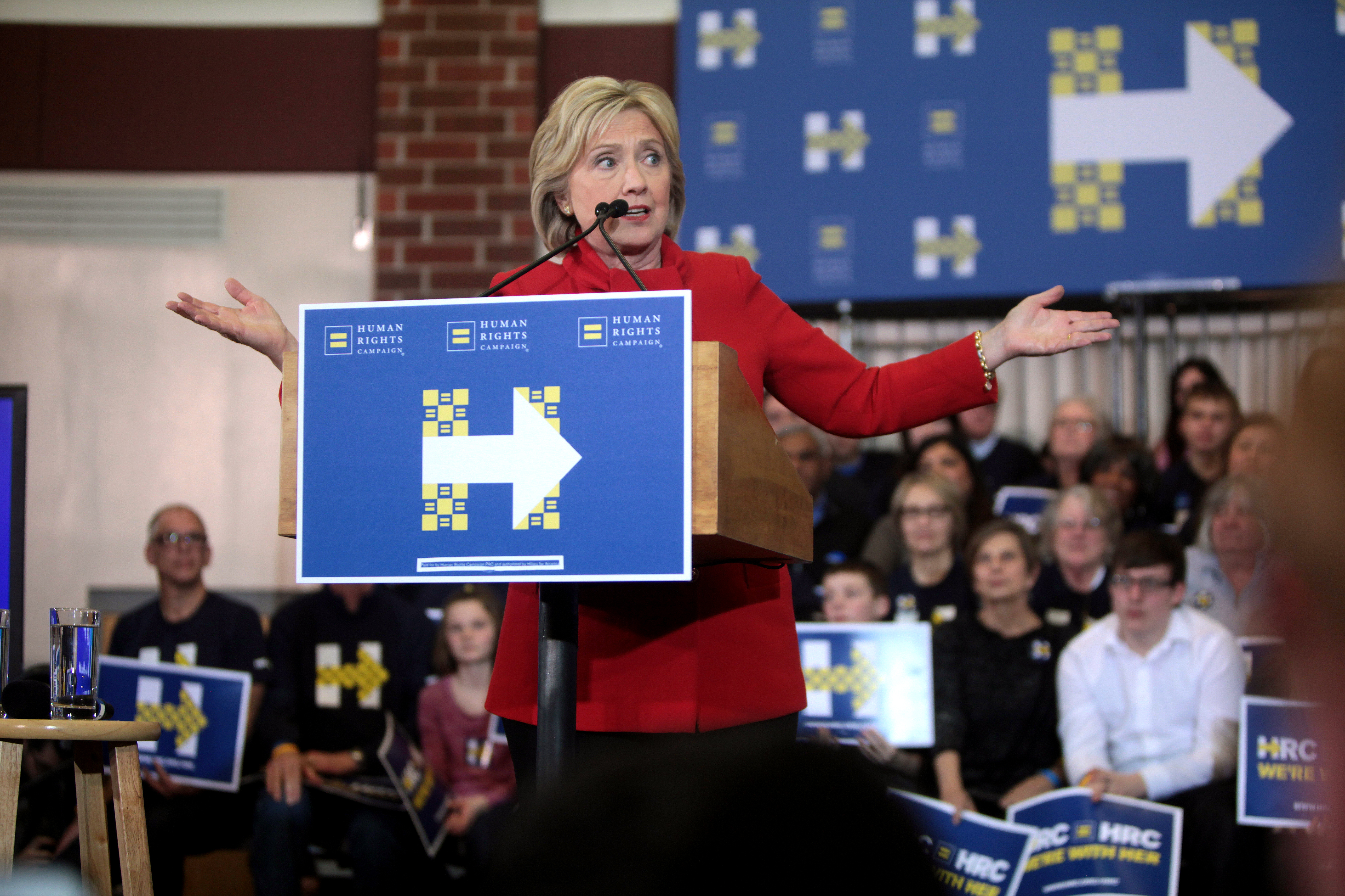 Former Secretary of State Hillary Clinton speaking with supporters at a "Get Out the Caucus" rally at Valley Southwoods Freshman High School in West Des Moines, Iowa.